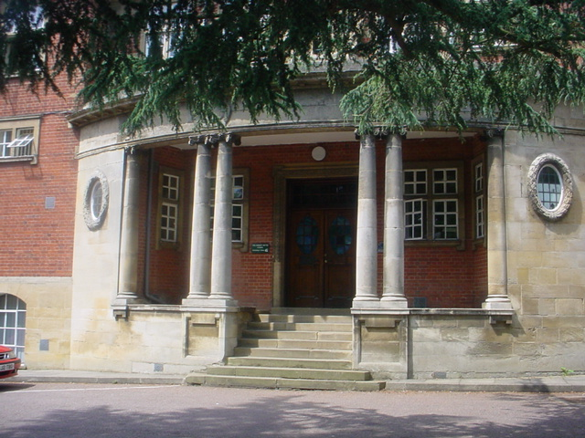 Robert Smyth School in Market Harborough, Leicestershire, a school for 14-19 year olds.